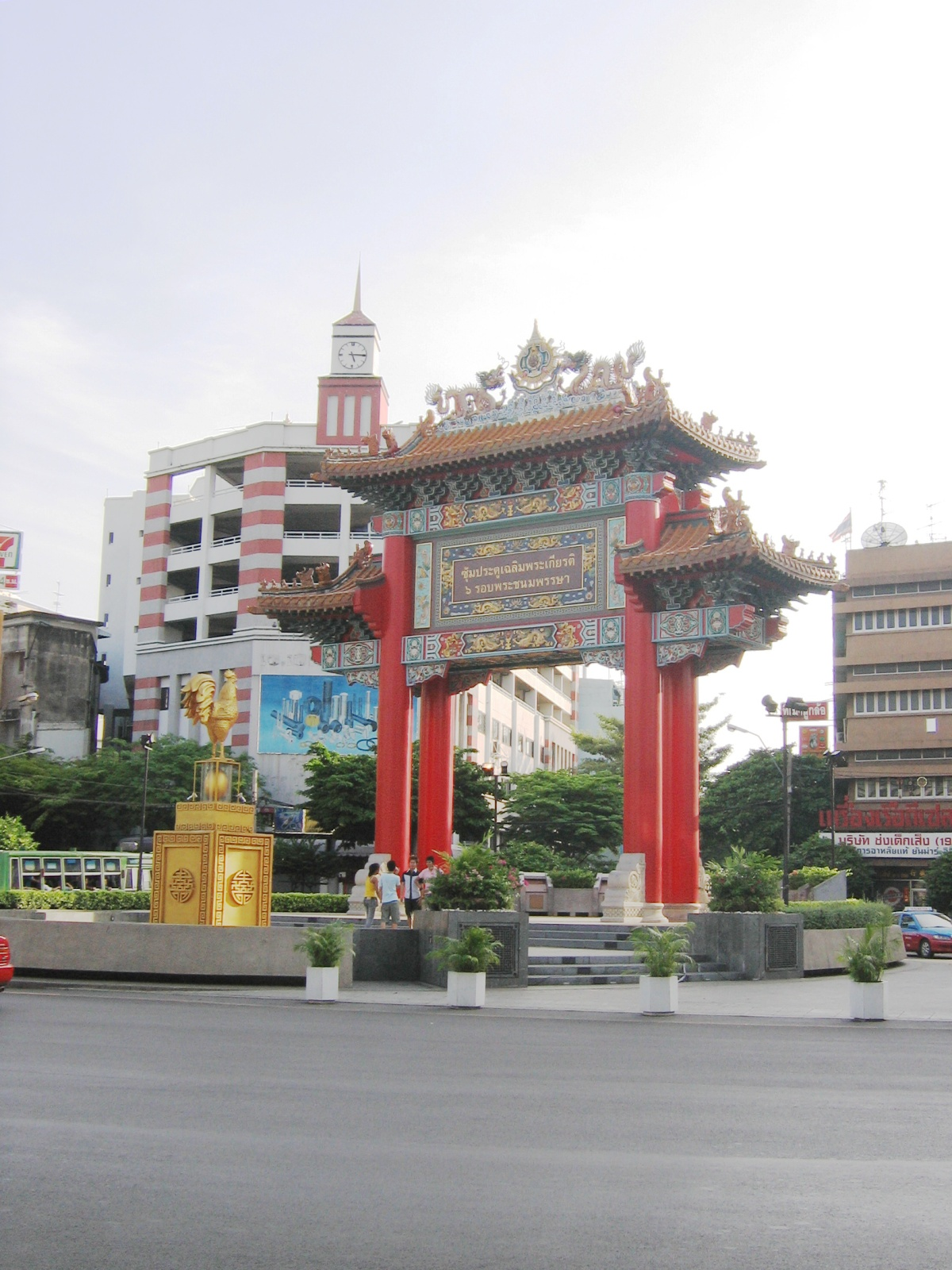 The gate at Yaowarat, Bangkok, Thailand. The golden rooster on the golden egg was placed there during the lunar year of the Rooster during 2005-2006. It has since been removed.